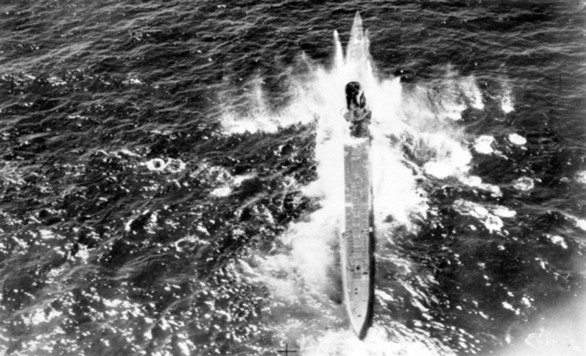 BAY OF BISCAY. 1942-06-05. OUTWARD BOUND GERMAN U71 UNDER ATTACK BY MACHINE GUN FIRE FROM A SUNDERLAND CAPTAINED BY FLIGHT OFFICER S. R. C. WOOD OF NO. 10 SQUADRON RAAF HAD BEEN FORCED TO SURFACE BY DEPTH CHARGES FROM THE SUNDERLAND. THE SUBMARINE HAD REGAINED TRIM WITH ITS BOWS AWASH AND, ALTHOUGH SEVERELY DAMAGED, WAS ABLE TO RETURN TO ITS BASE AT LA PALLICE, BORDEAUX, BECAUSE THE SUNDERLAND HAD NO MORE DEPTH CHARGES.